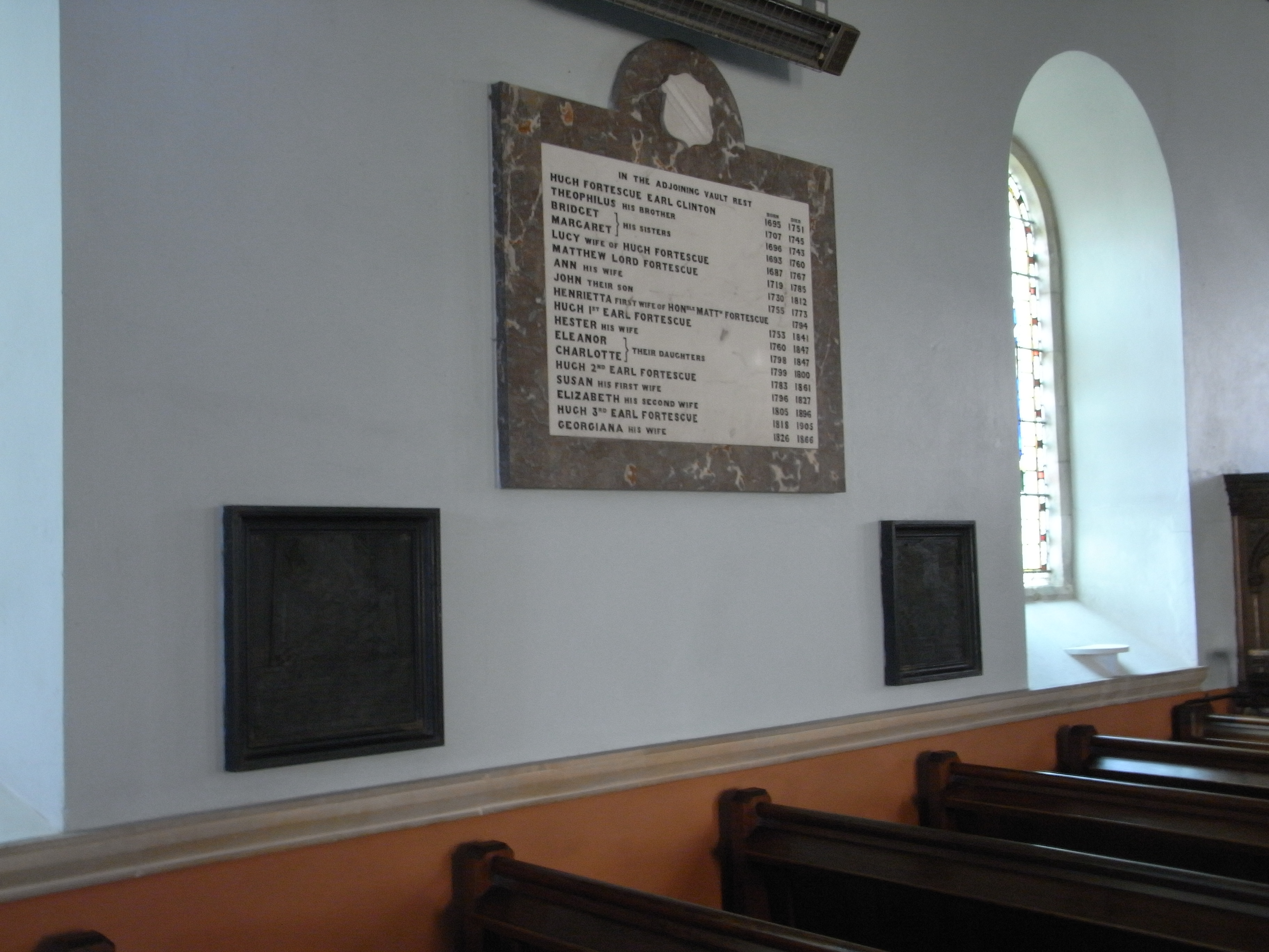 Two small monumental brasses of Richard Fortescue (d.1570) of Filleigh, north wall of nave, Filleigh Church, North Devon. Frames are Victorian, brasses are displaced from their unknown original locations within the church